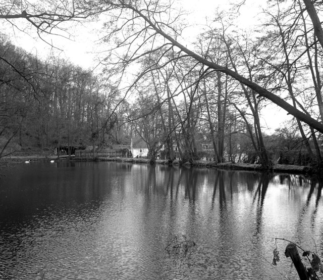 Leigh Place Pond, Godstone, Surrey One of themany ponds in or near to Godstone